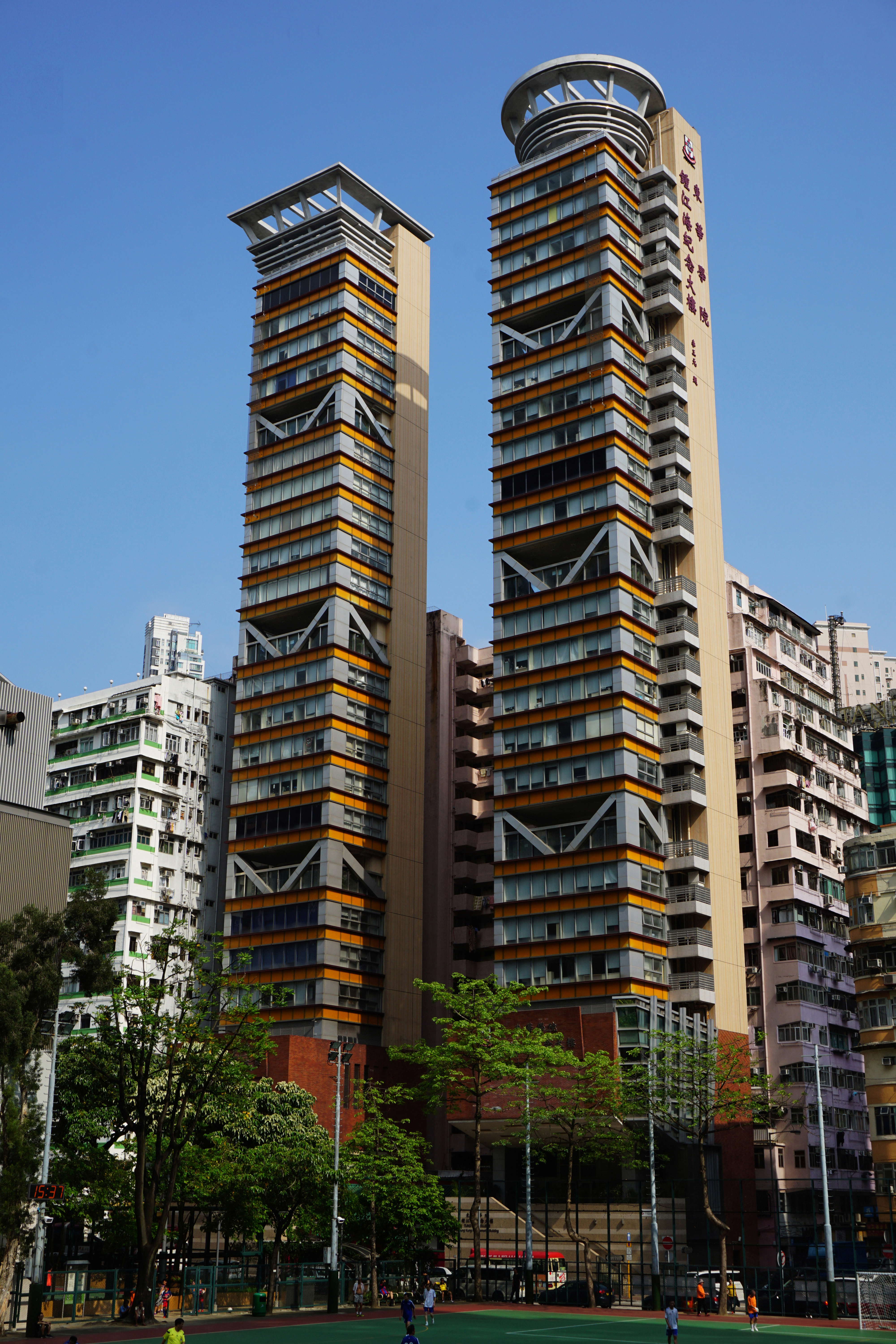 TWGH Community College Campus in Mong Kok, Hong Kong.